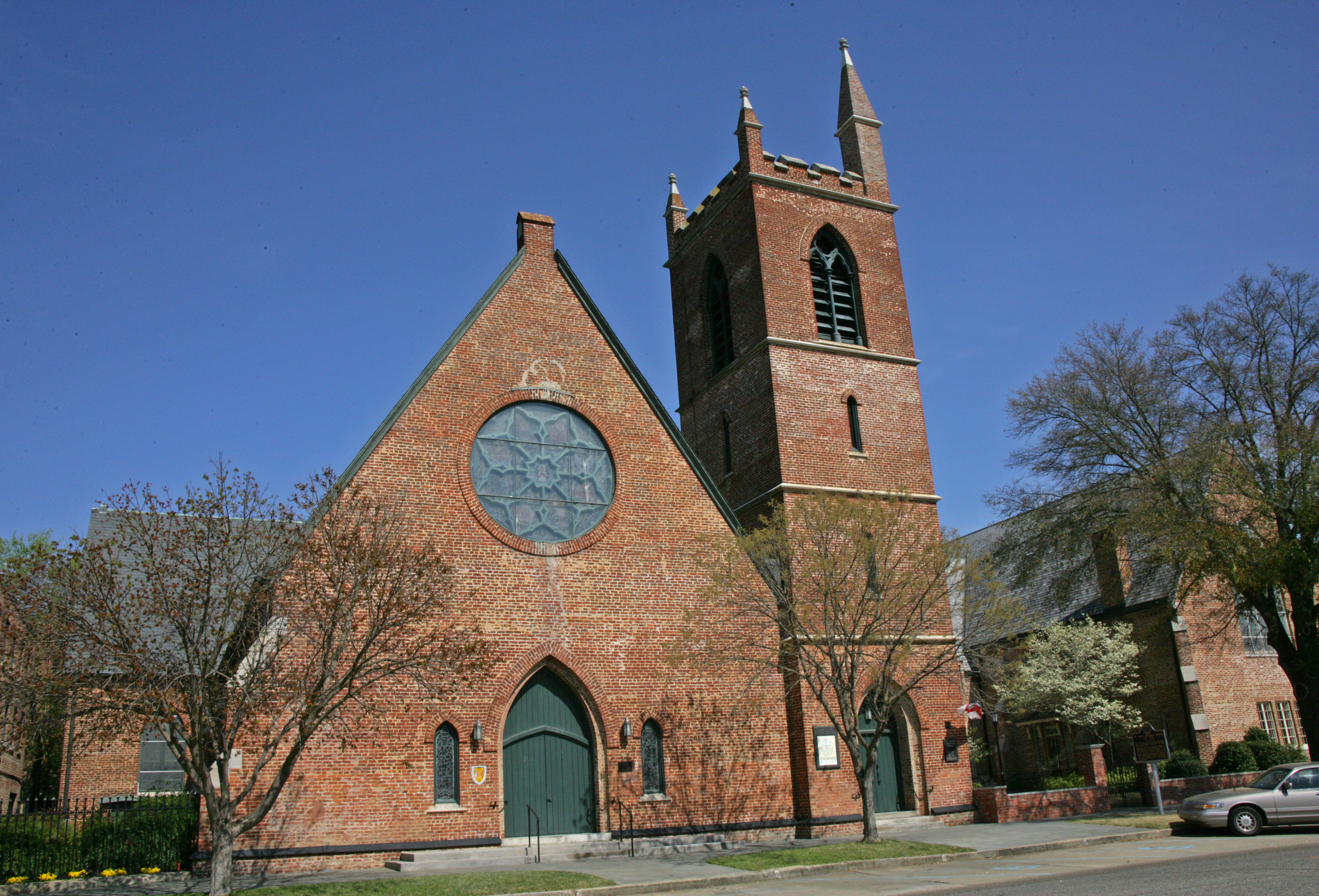 St. Paul's Episcopal Church in Selma, Alabama. Designed by Richard Upjohn, completed in 1875.